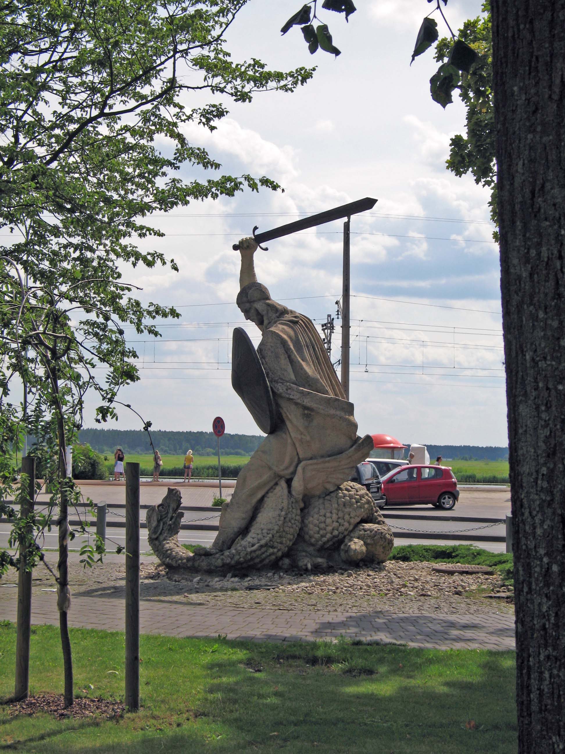 St. George at Jurmala